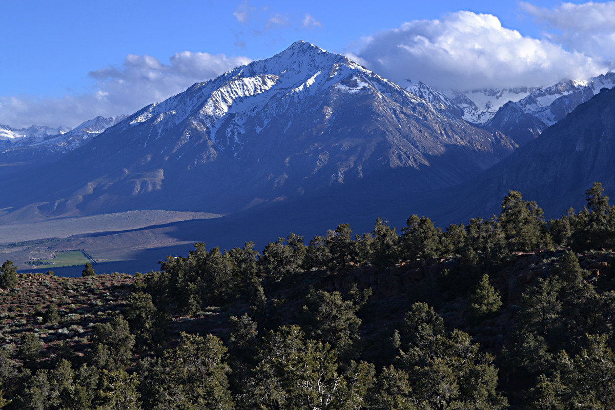 Mount Tom from US Highway 395 on the Sherwin Grade.